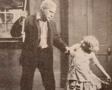 Still from the American drama short film The Little White Girl (1917) with John Cossar and child actress Mary McAllister, on page 27 of the August 18, 1917 Exhibitors Herald. This film was the tenth film of the short film series Do Children Count? (1917), all of which starred Mary McAllister.